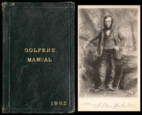 H. B. Farnie's golfer's manual, 1862, published by Henry Brougham Farnie (1836–1889), also known as H. B. Farnie, a British librettist and an author.